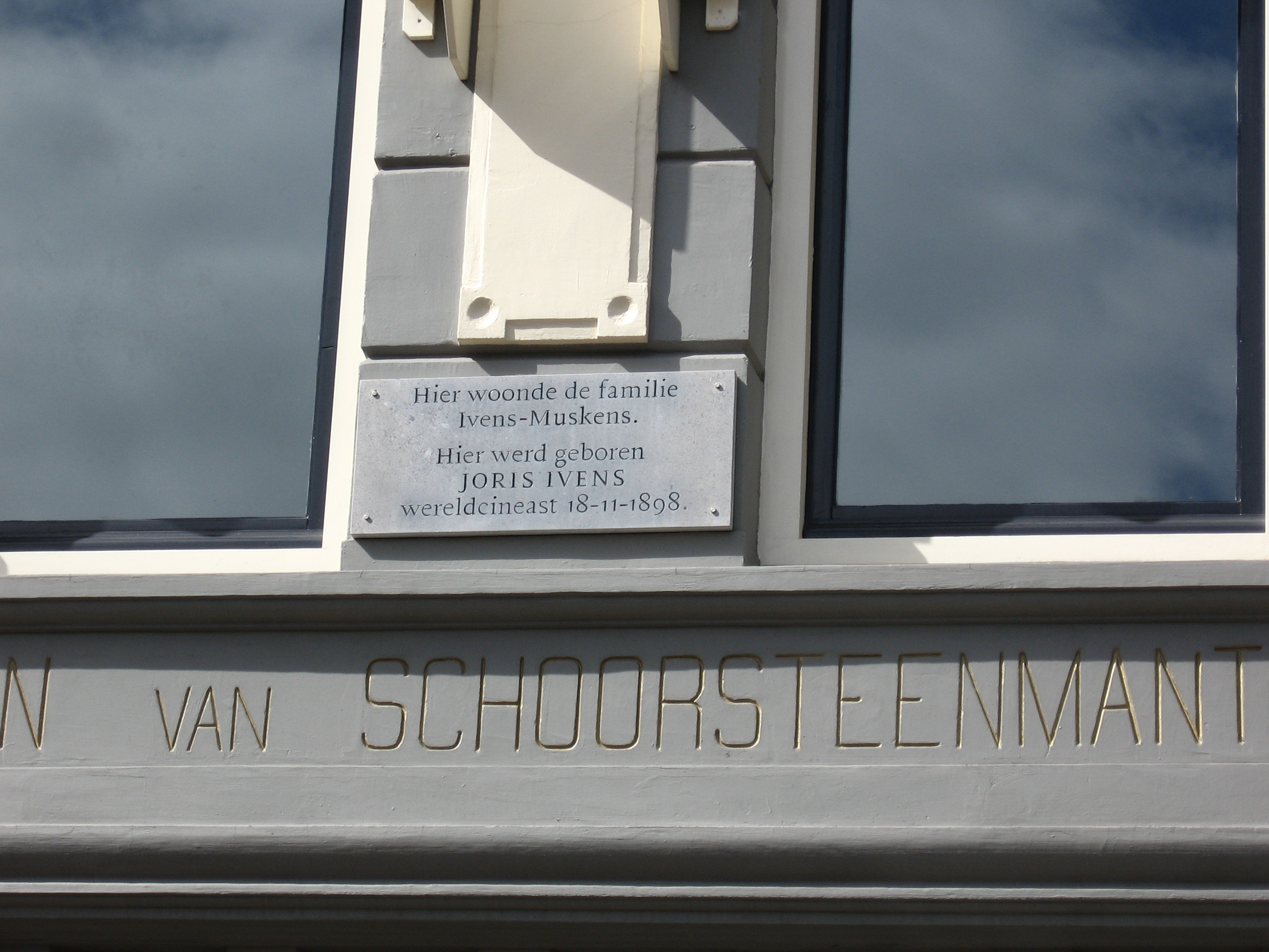 Birthplace of the filmmaker Joris Ivens at Van Berchenstraat 17-19, Nijmegen, The Netherlands. Inscription in translation:Here lived the Ivens-Muskens family.Here was bornJORIS IVENSworldwide filmmaker 18-11-1898.